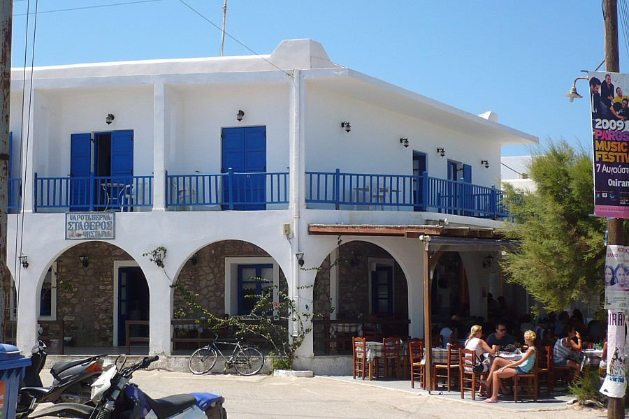 Antiparos apartments for rent